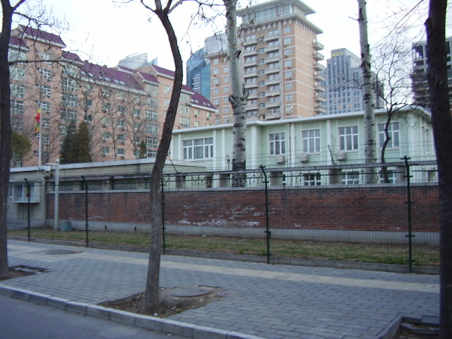 Photograph of the Ethiopian Embassy in Beijing